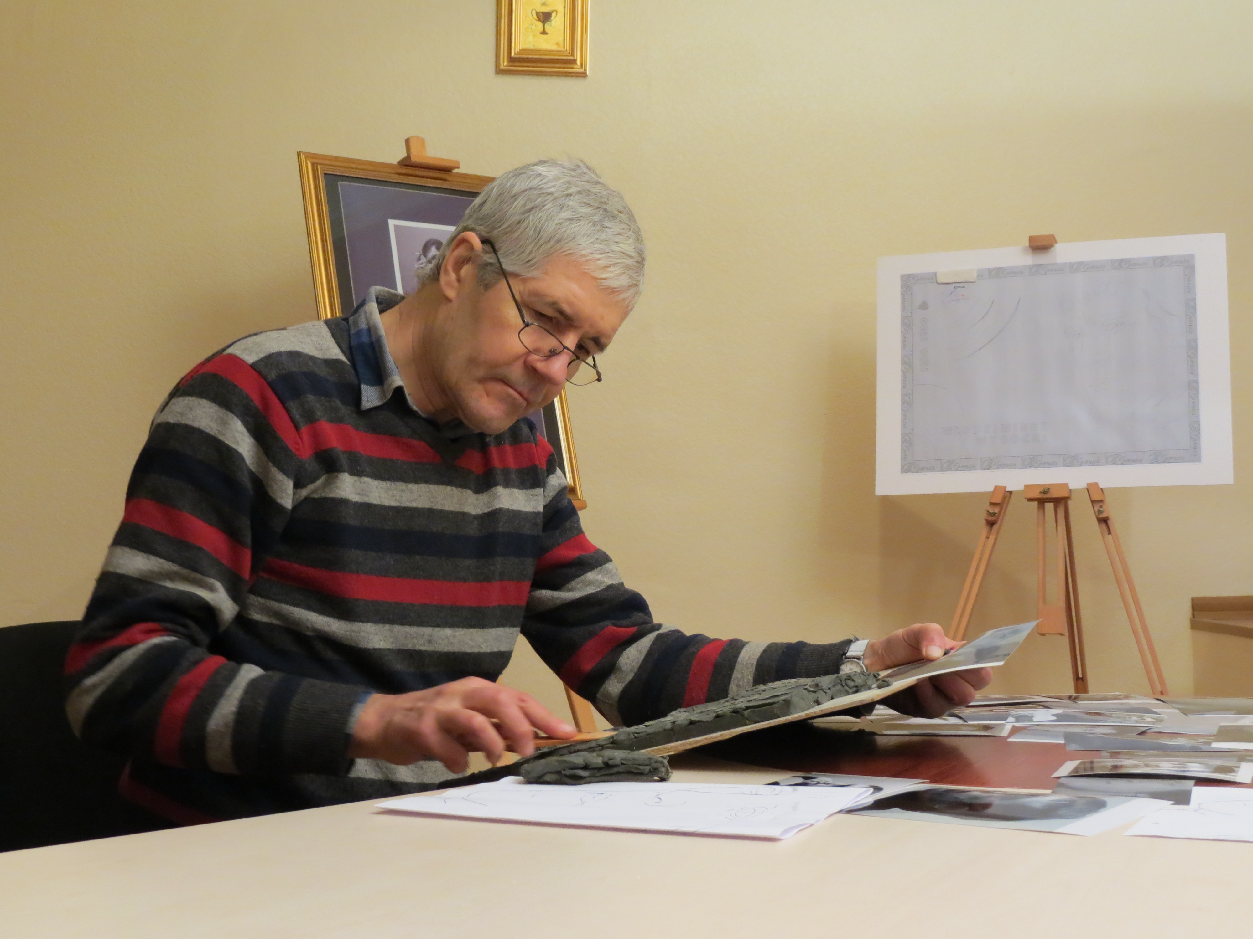 Латвийский скульптор Янис Струпулис. Синергетический барельеф Владимира Высоцкого.